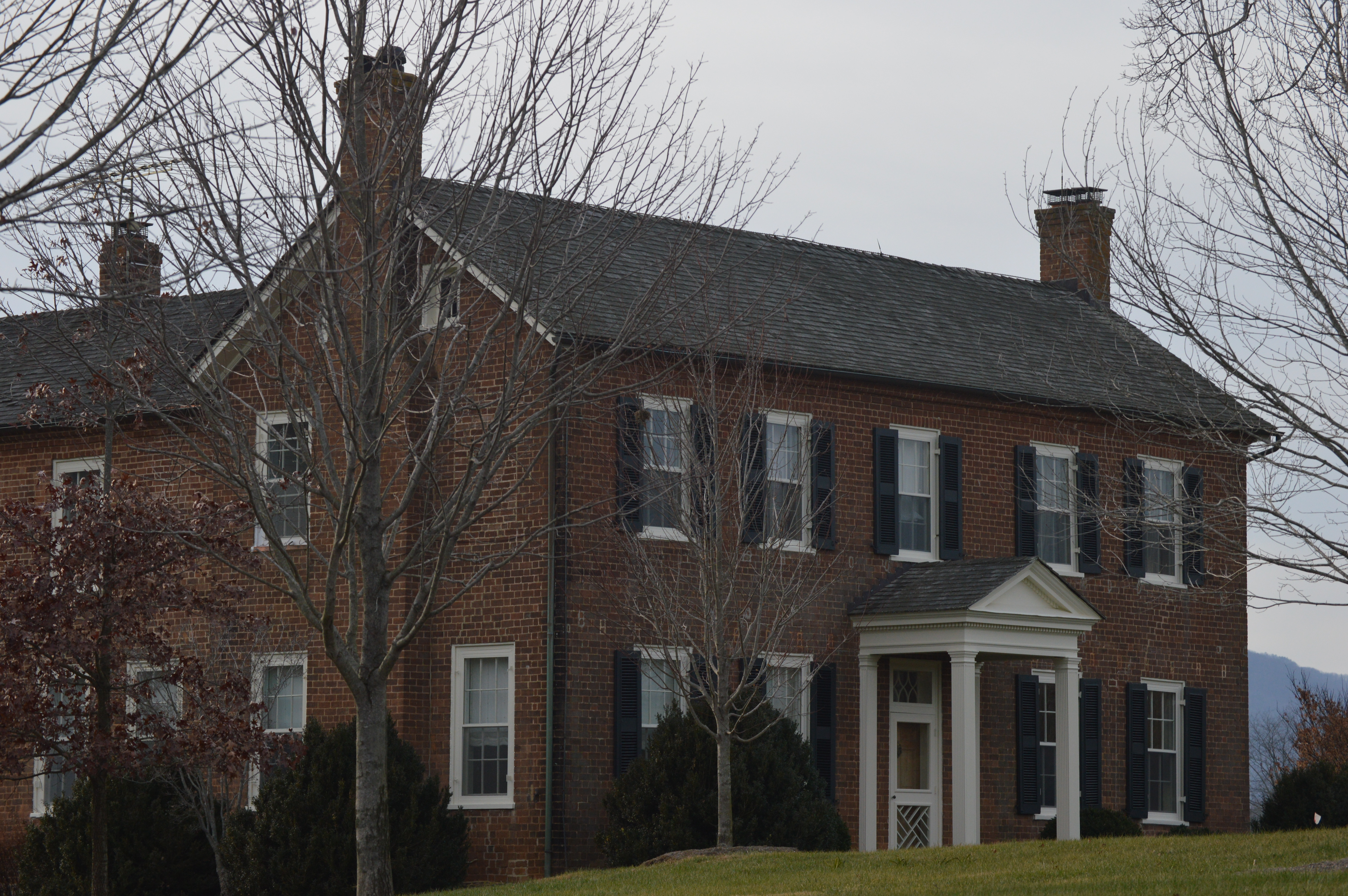 Front and southeastern side of Level Loop, located on Hays Creek Road west of Brownsburg in Rockbridge County, Virginia, United States. Built in 1819, it is listed on the National Register of Historic Places.